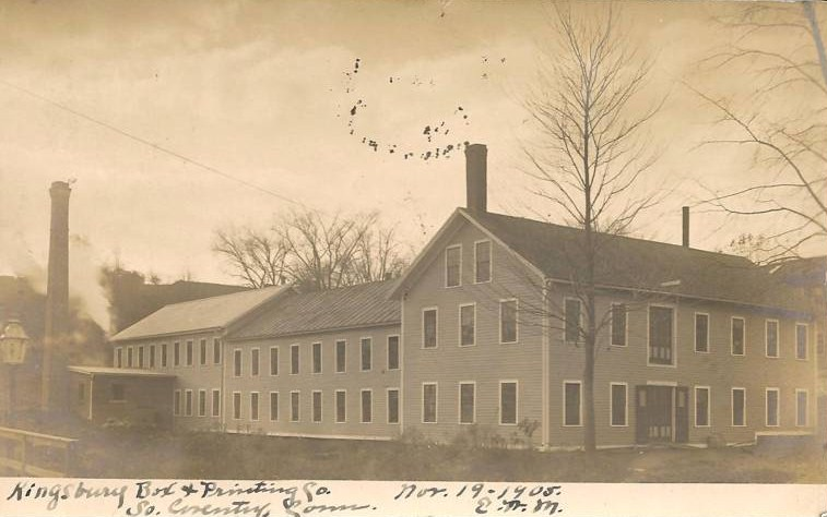 Postcard picture, now sepia tinted, of the Kingsbury Box & Printing Co. in the South Coventry, Connecticut section of Coventry, Connecticut. The address side of the postcard is undivided, so the written message is at the bottom, which identifies the building (apparently a factory).